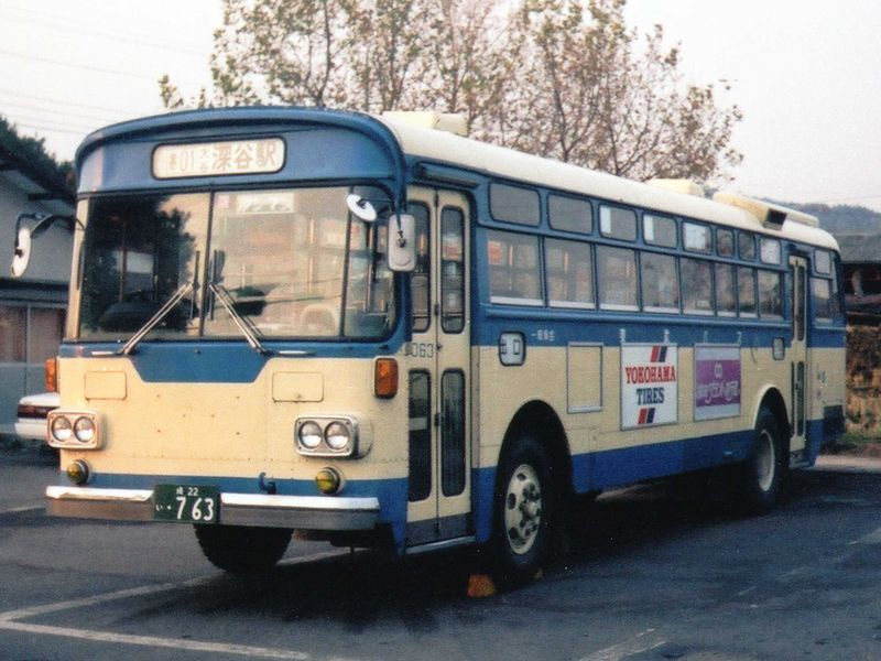 Tobu Bus Hino RE120 (Hino Body) at Yorii Branch This picture is obtaining and photoing permission of the persons concerned.